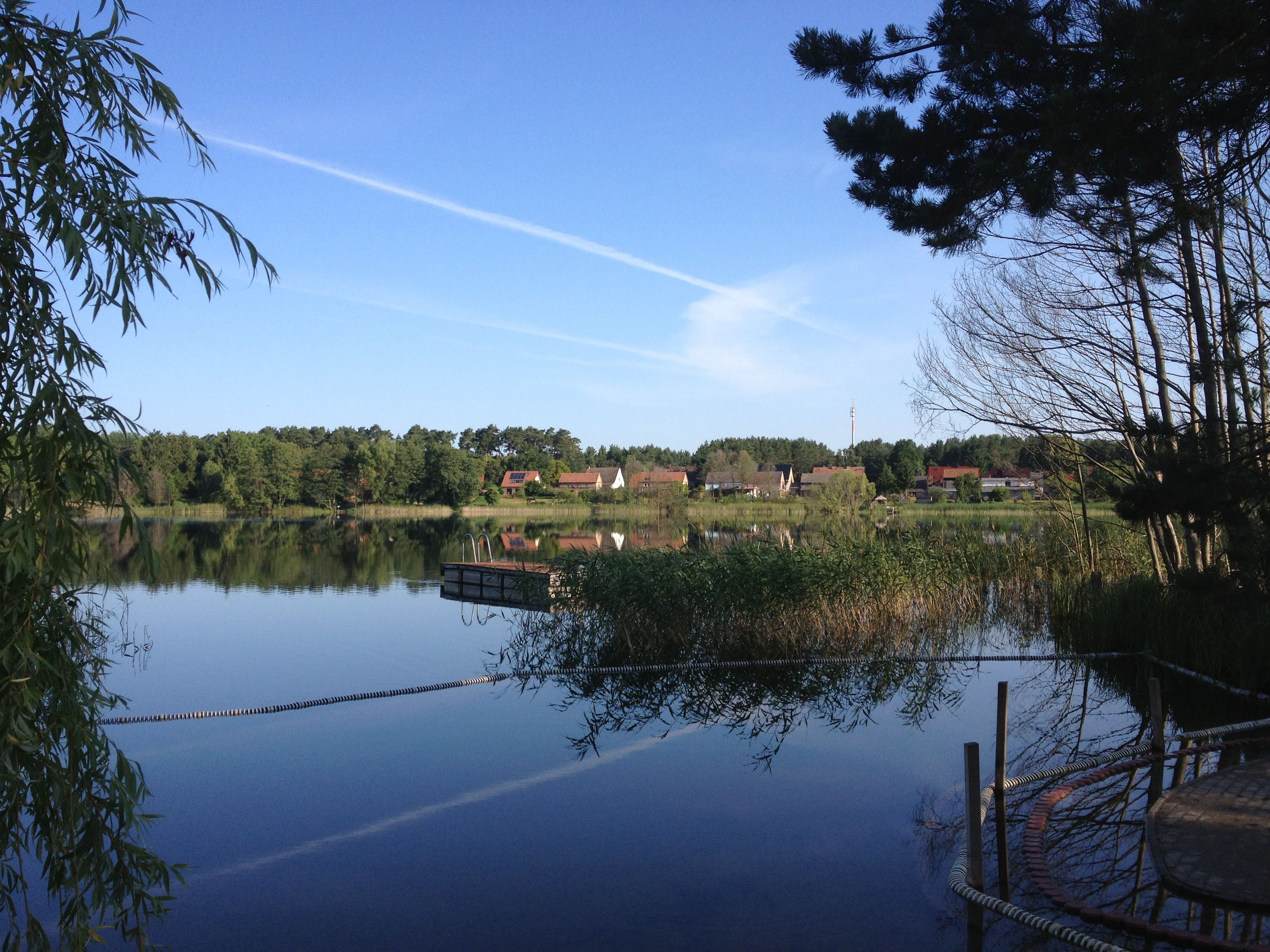 Groß Väter am Großen Vätersee